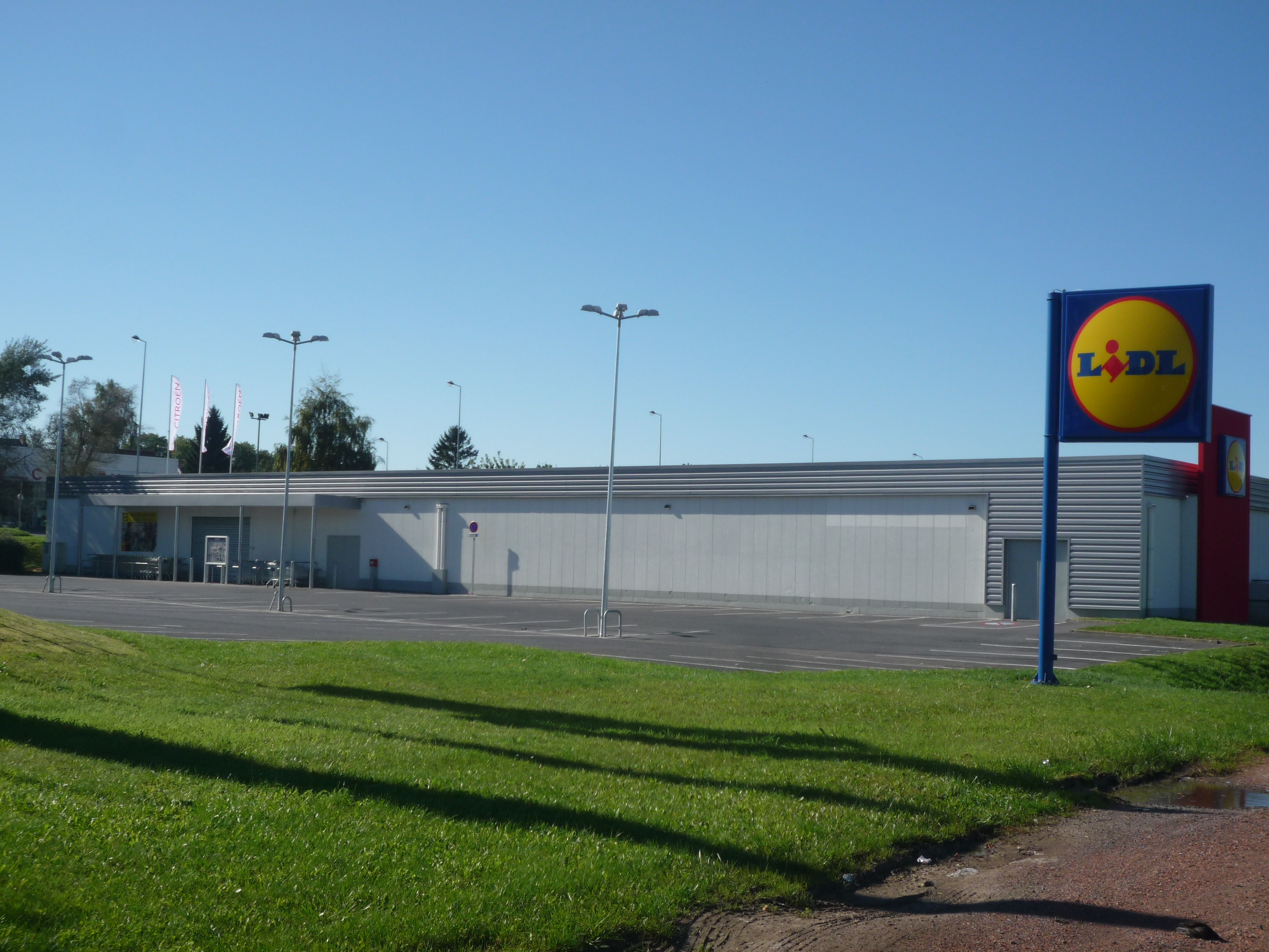 Caudry, Nord-Pas-de-Calais, France.